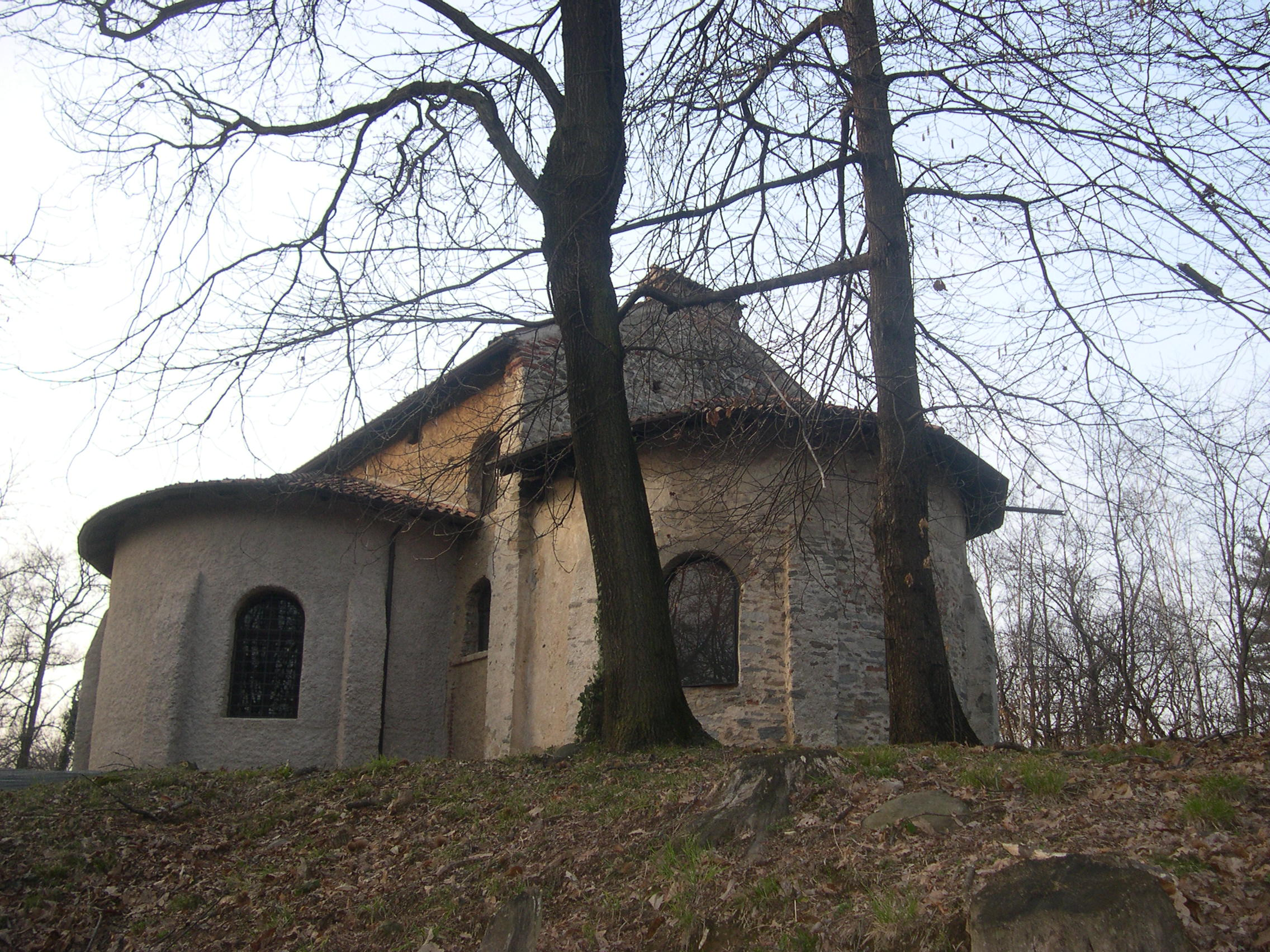 church of Santa Maria foris portas in Castelseprio